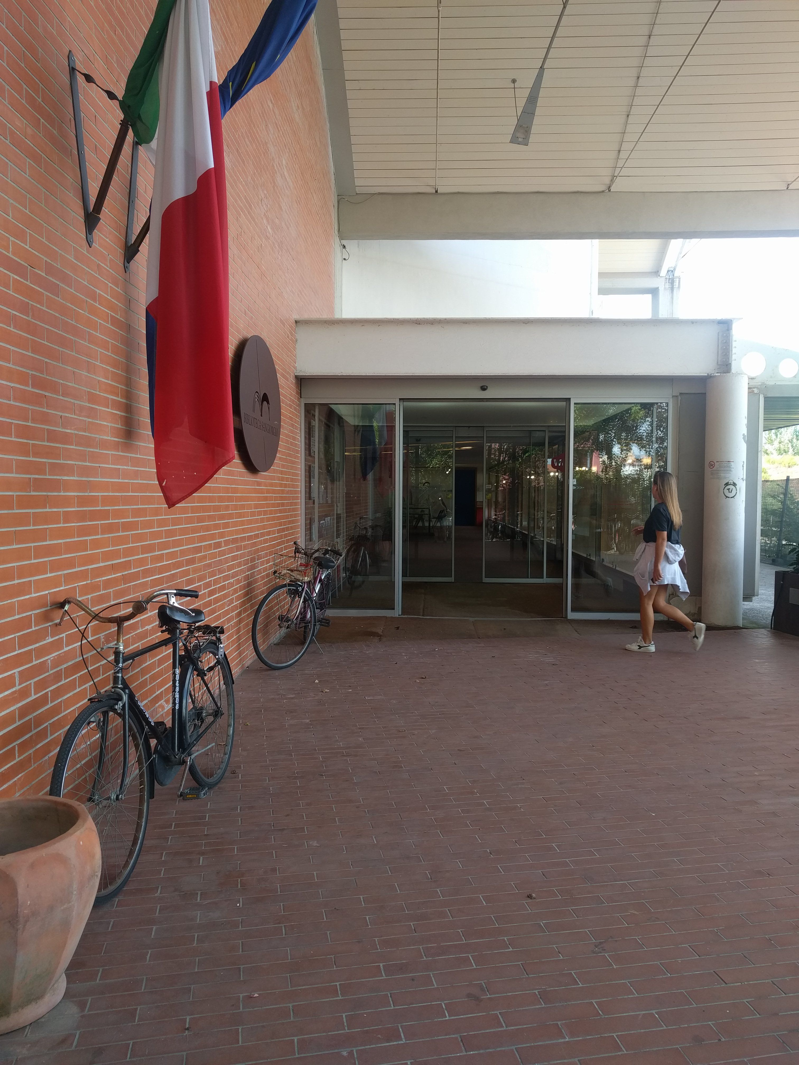 Public library San Giorgio, Pistoia Italy, main entrance This is a photo of a monument which is part of cultural heritage of Italy.